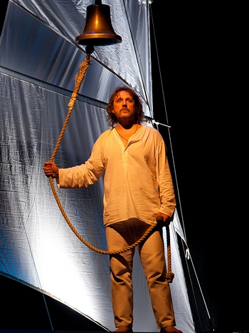 Actor Vladimir Dyadenistov as Bedrall (Ryazanoff's Anima) at Rock-Opera «Yuno» and «Avos» (Rock-Opera Theatre, St. Petersburg)